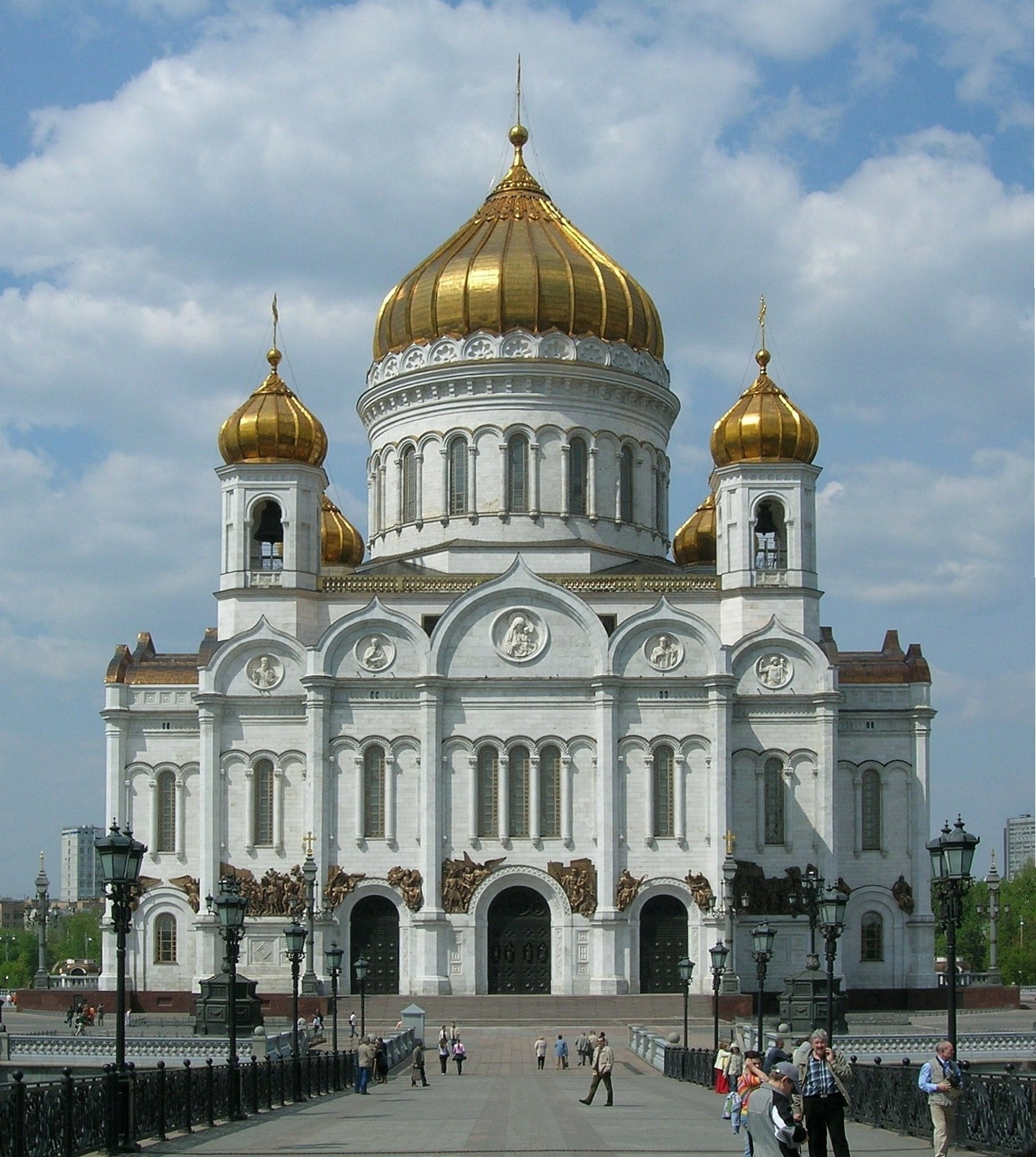 Cathedral of Christ the Saviour over Moscow River. Moscow .